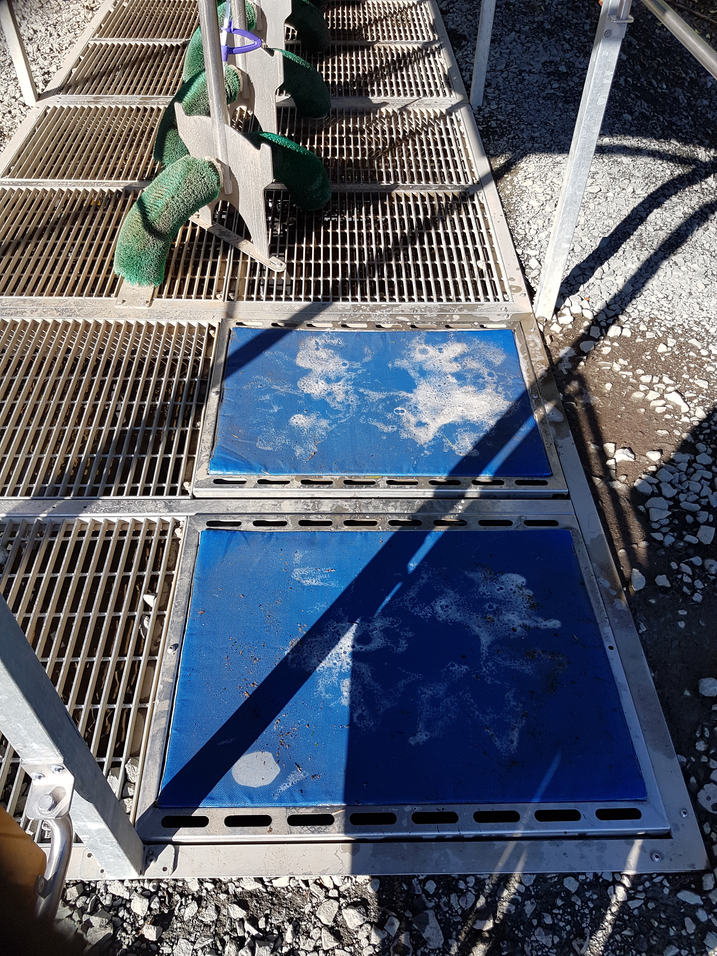 Improved footwear cleaning stations at track entrance to Te Matua Ngahere, Four Sisters and Yakas Kauri, installed 2018